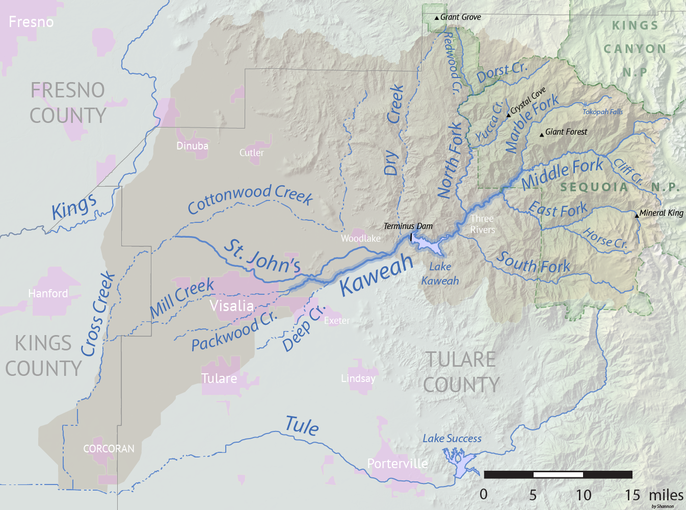 Map of the Kaweah River drainage basin, California, USA. Made using U.S. Geological Survey NED and NHD data.